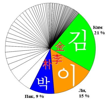 russian version of three most common korean names